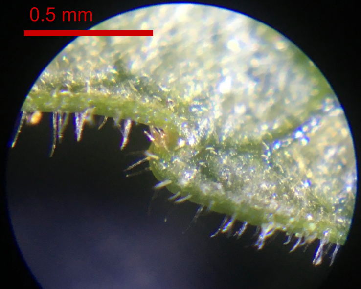 This image shows the abaxial surface of a leaf margin of the species Populus trichocarpa with a salicoid tooth visible. The glandular trichomes can be seen as a yellowish-brown protuberance in the axil of the tooth. Note how the vein approaching from the top right expands as it enters the tooth. The leaf apex is to the left of this image.